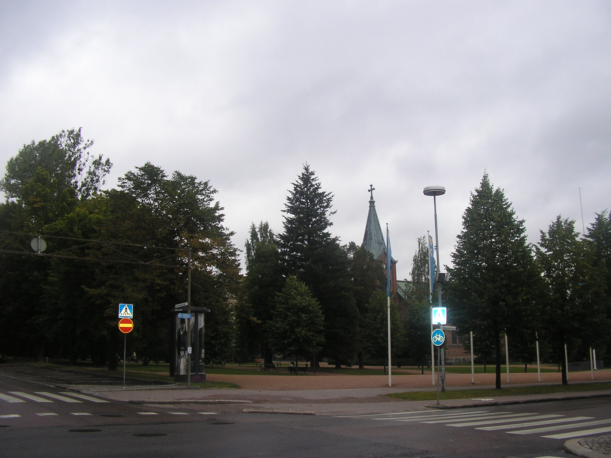 Kirkkopuisto in Jyväskylä